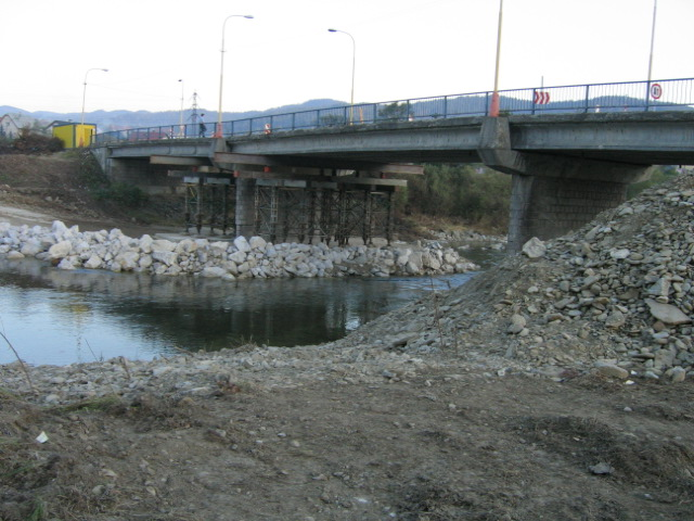 Repair of bridge to Ochodnica (25. 9. 2007). Bridge was damaged by river Kysuca during heavy rains on september 7th 2007.